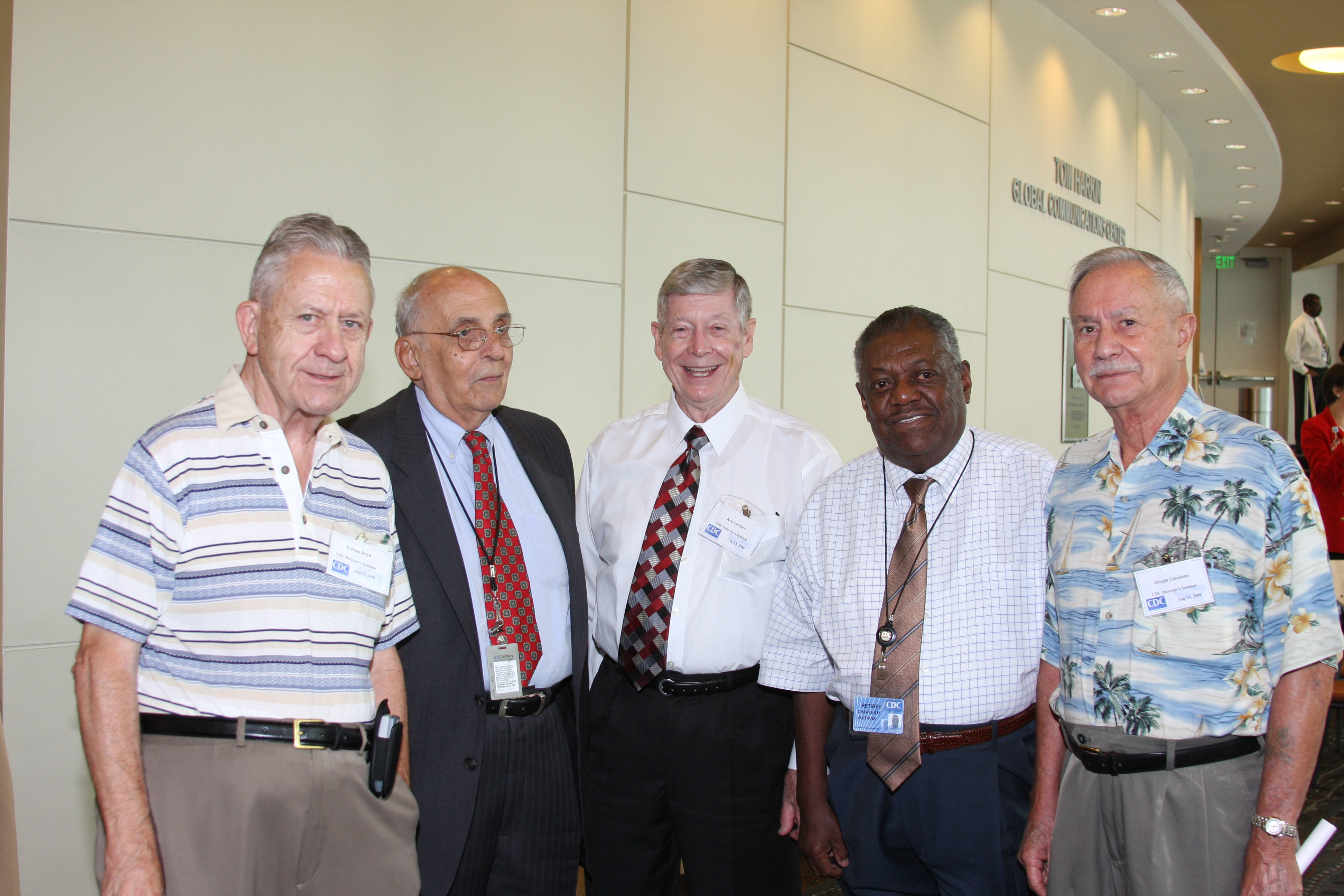 Retired PHAs Doyle, Lattimer, Watkins, and Giodano with Dr. David Sencer (second from left)